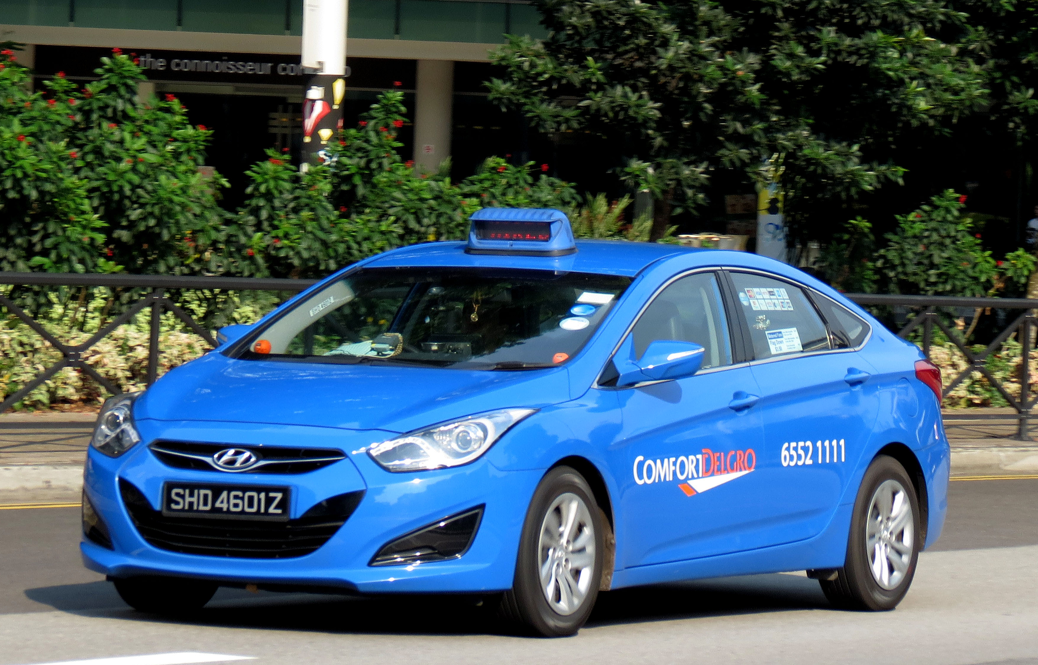 A Comfort-owned Hyundai i40 Sedan in Singapore.